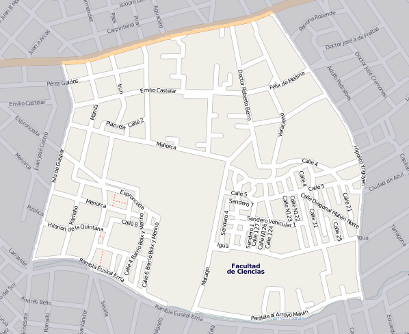 Street map of Malvín Norte, Montevideo, exported from OpenStreetMap. I added shading to delimit the barrio. This map may be incomplete, and may contain errors. Don't rely solely on it for navigation.